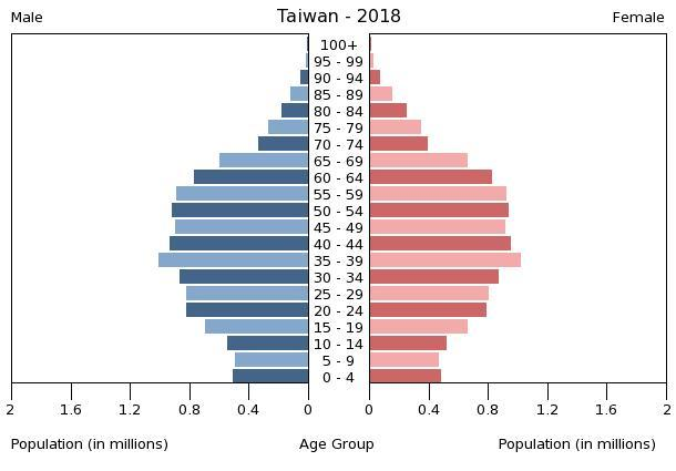 The population pyramid of Taiwan illustrates the age and sex structure of population and may provide insights about political and social stability, as well as economic development. The population is distributed along the horizontal axis, with males shown on the left and females on the right. The male and female populations are broken down into 5-year age groups represented as horizontal bars along the vertical axis, with the youngest age groups at the bottom and the oldest at the top. The shape of the population pyramid gradually evolves over time based on fertility, mortality, and international migration trends.